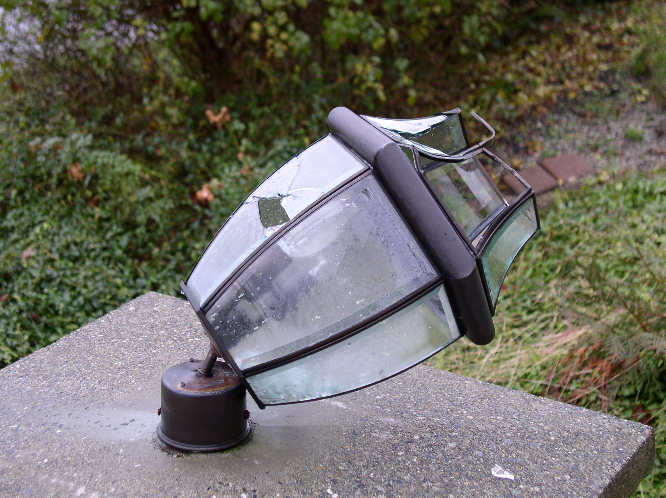 A Vandalized light